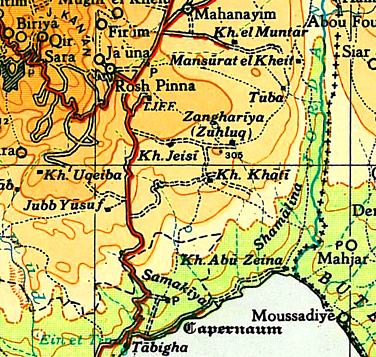 Operation Mataheh: area cleared of bedouin encampments 1948